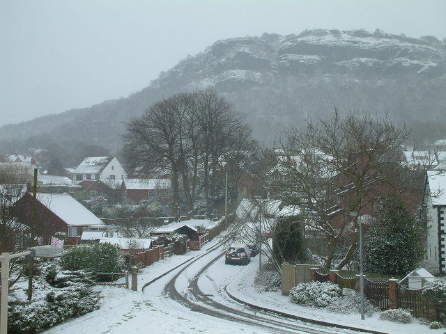 Helsby, The Hill in the Snow